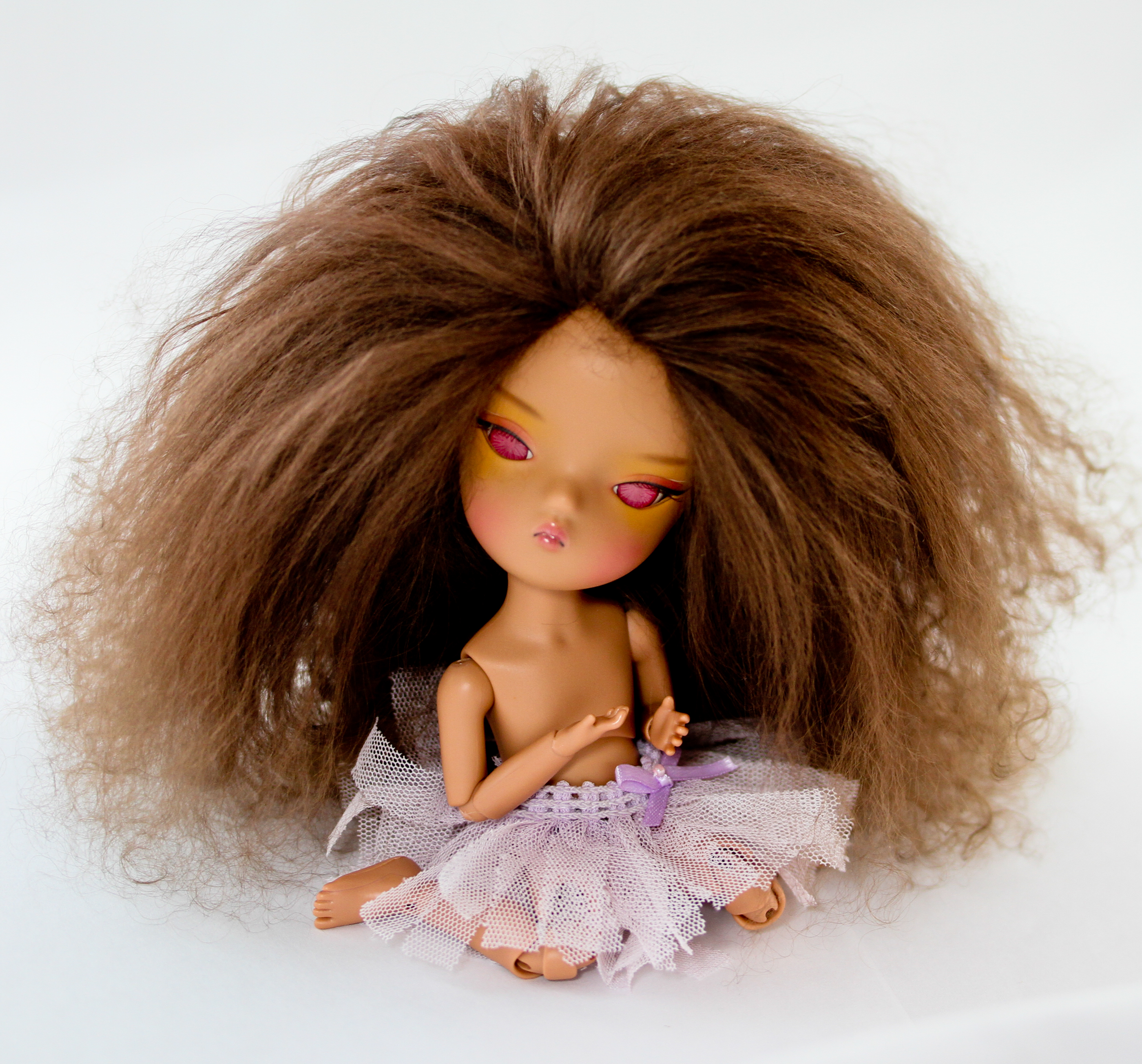 Chocolate SecretDoll Person Wig